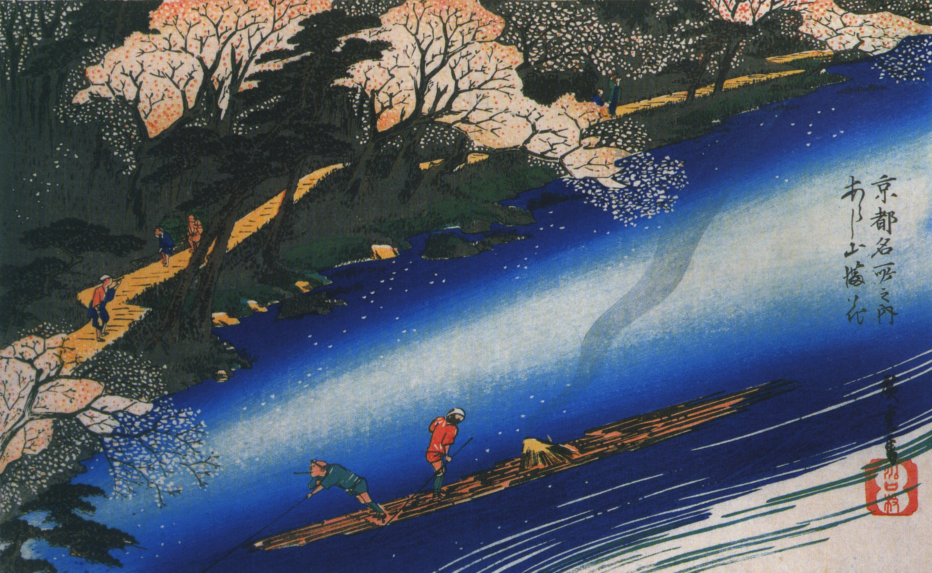 Views of Kyoto - #5. Cherry-Blossom at Arashiyama